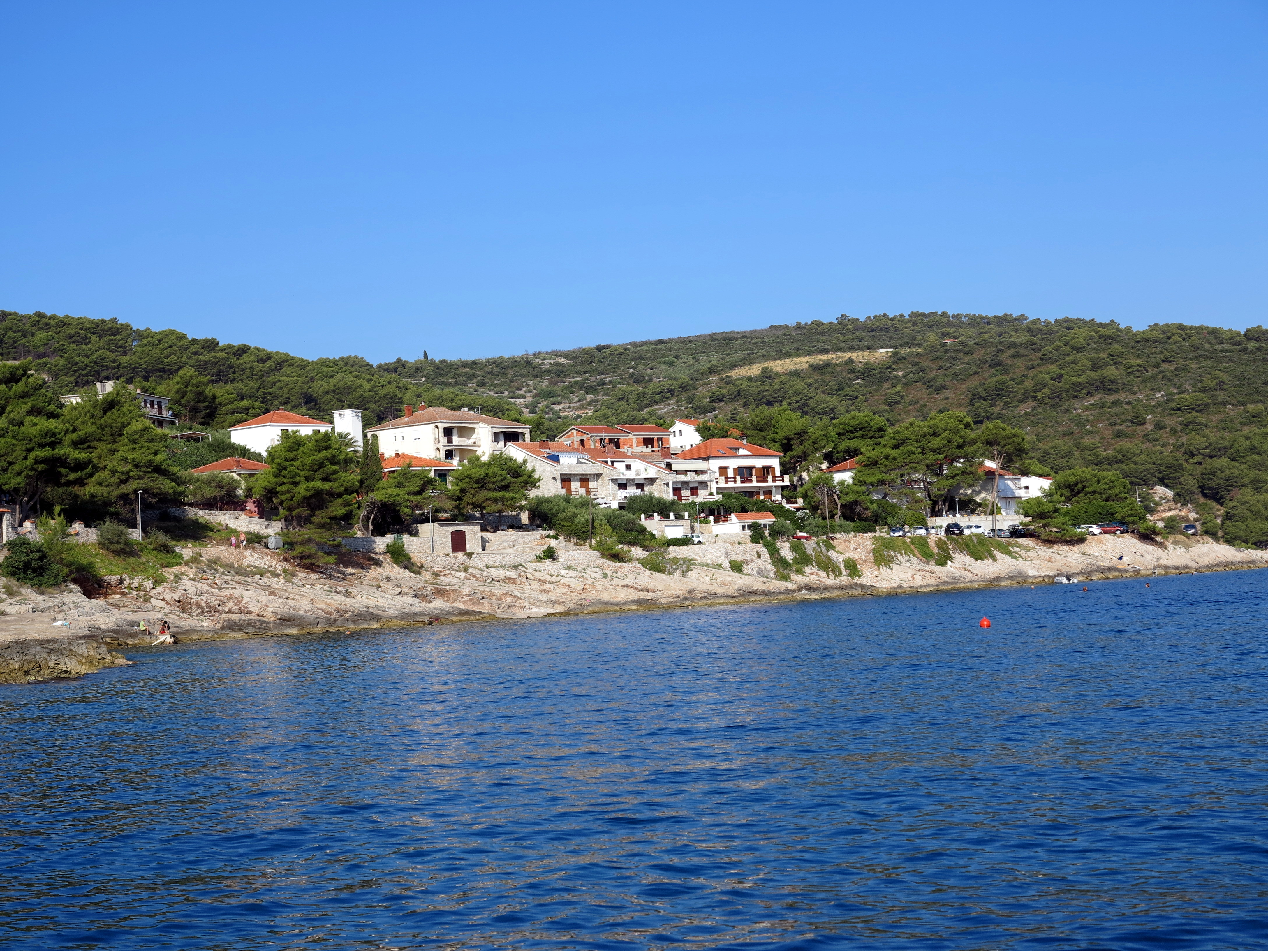 Buildings east of Stomorska on the island Šolta / Croatia / Adriatic Sea.